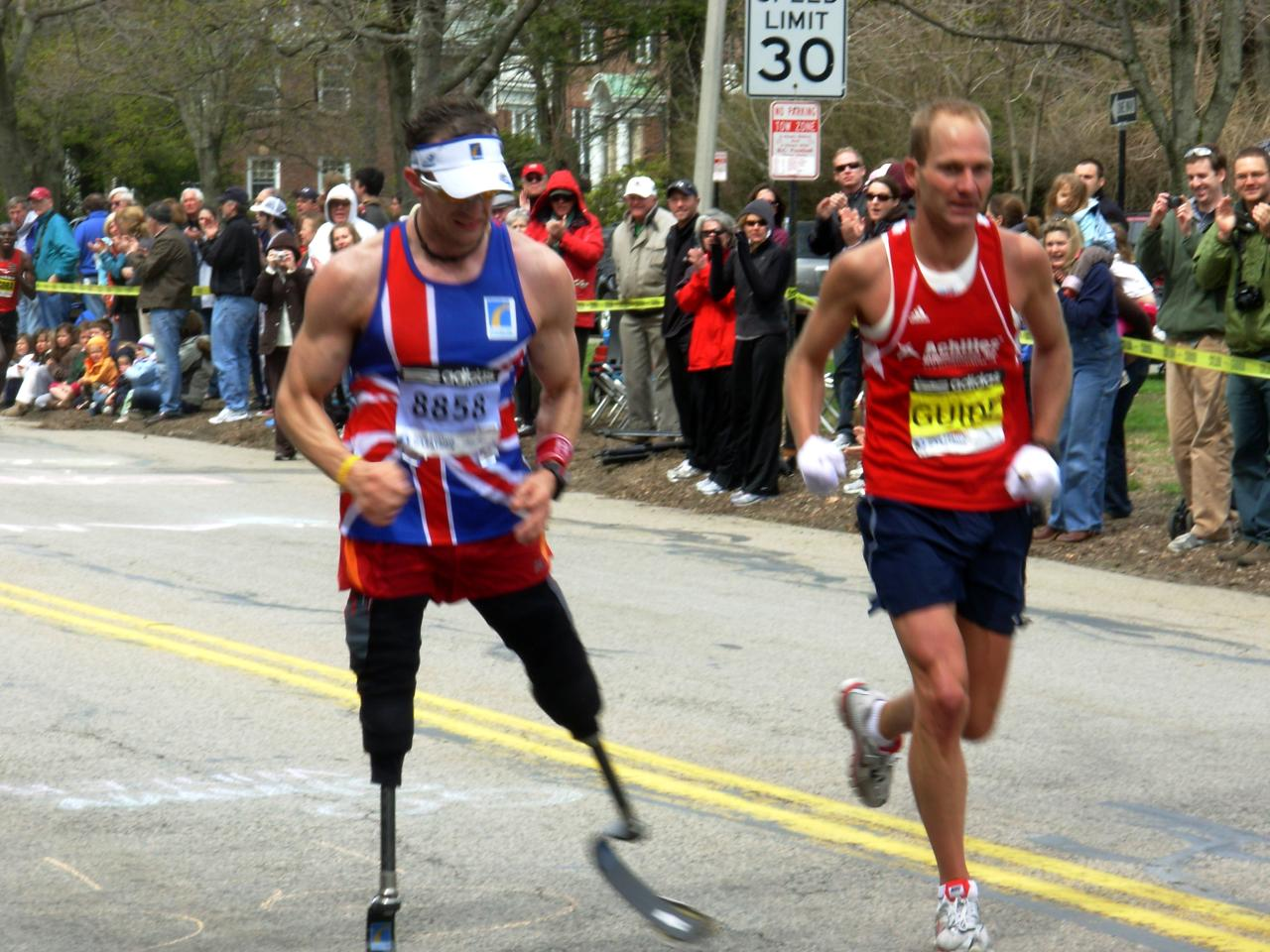 Richard Whitehead (to the left) at the Boston marathon 2009. Heartbreak hill, boston marathon 2009.